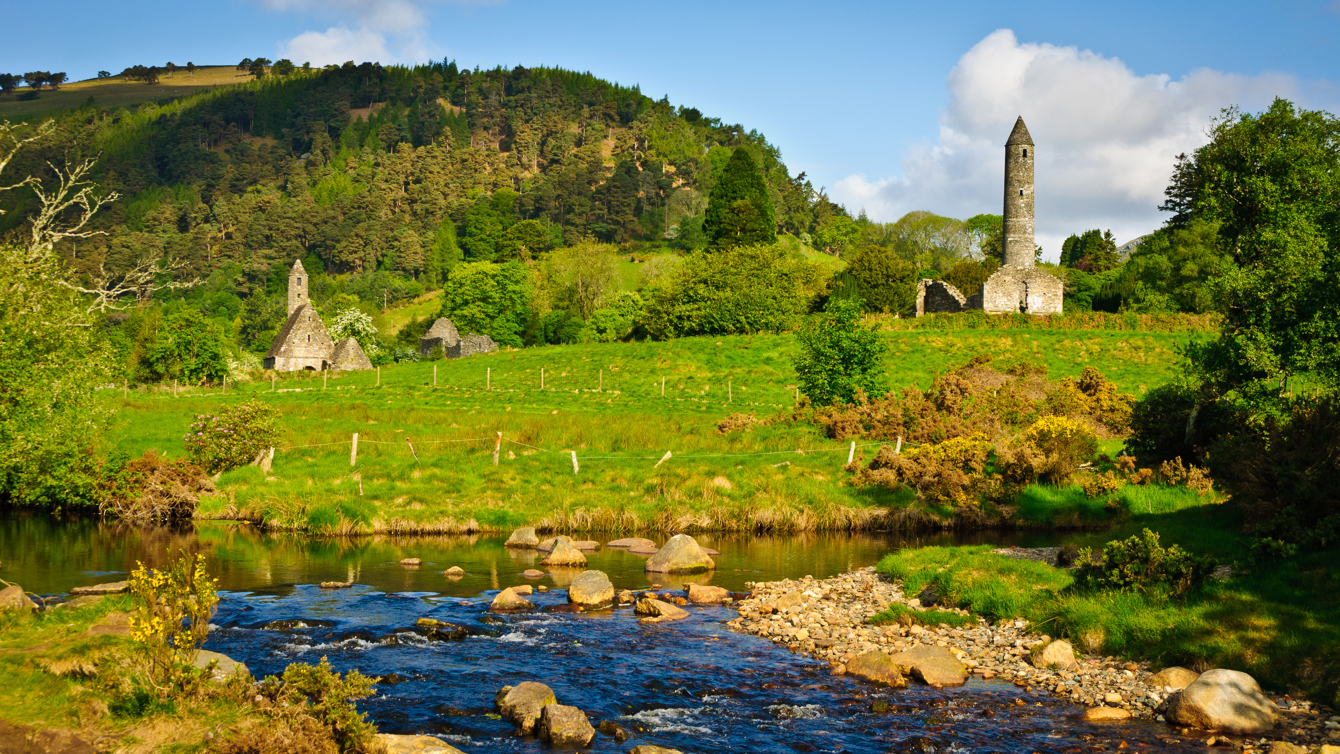 Crossing the Glendasan River near the Monastic City of Glendalough, County Wicklow, Ireland